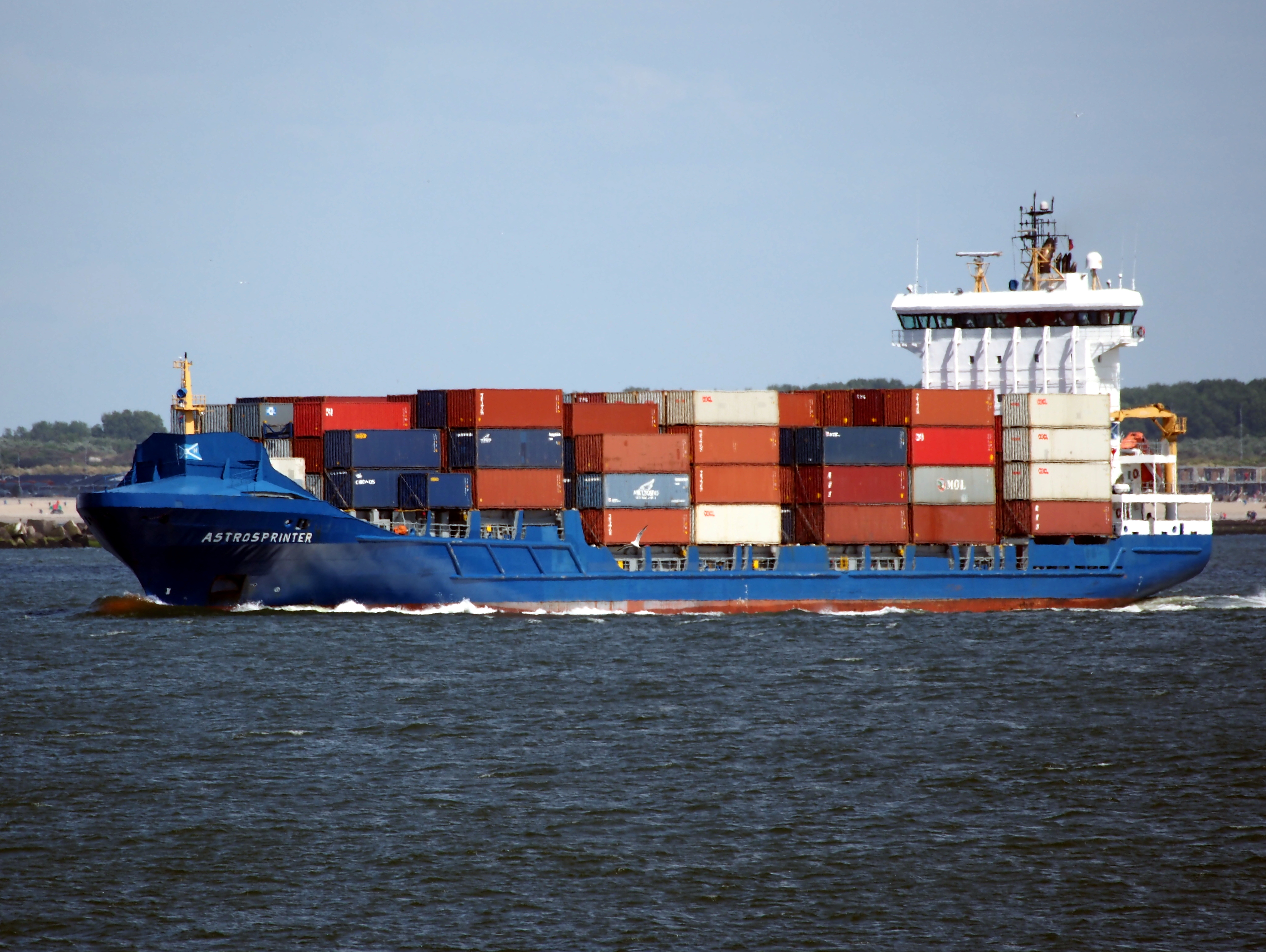 Astrosprinter (ship, 2007) IMO 9349215 Maasmond, Port of Rotterdam